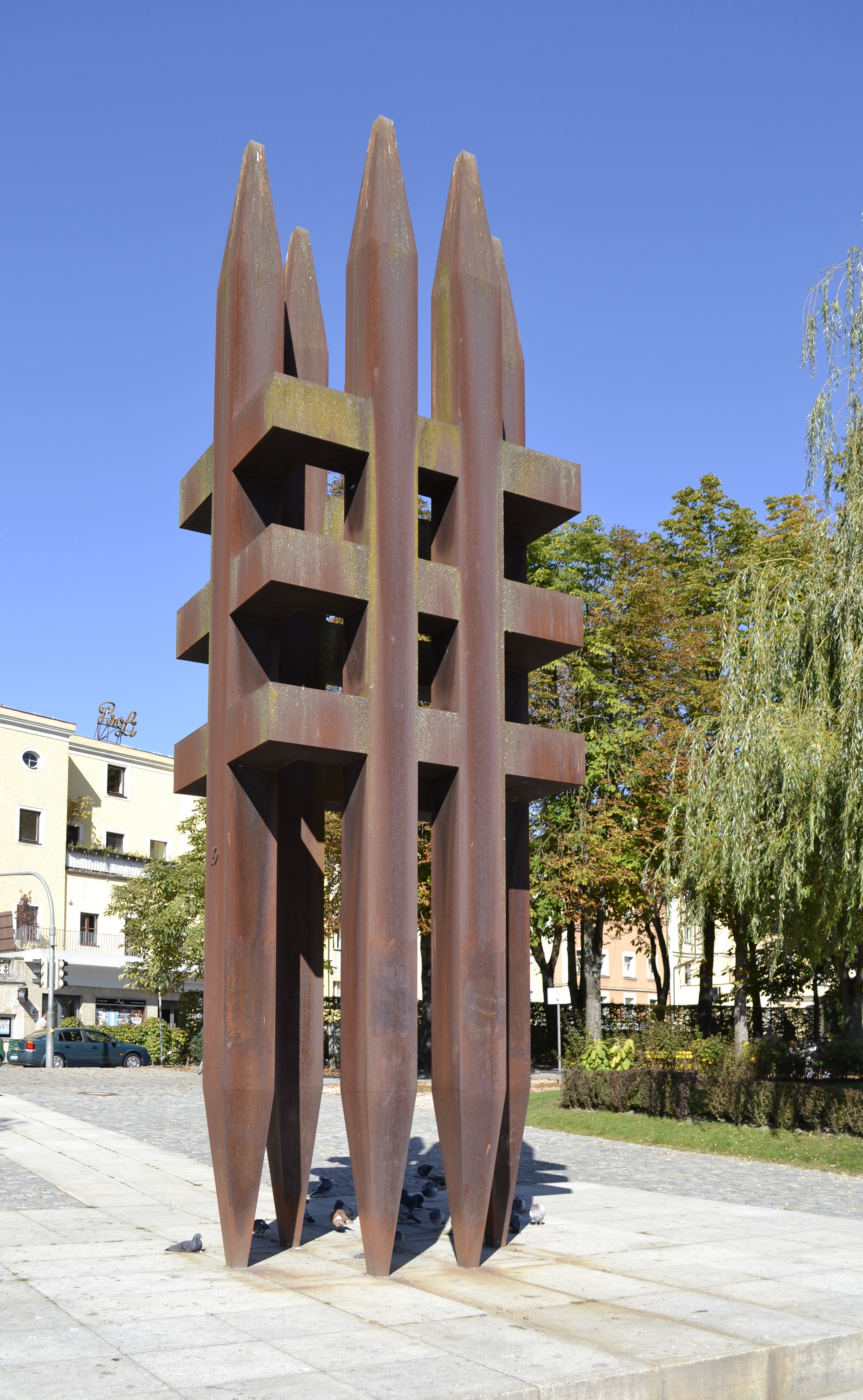 The Memorial for the Victims of National Socialism in Passau.